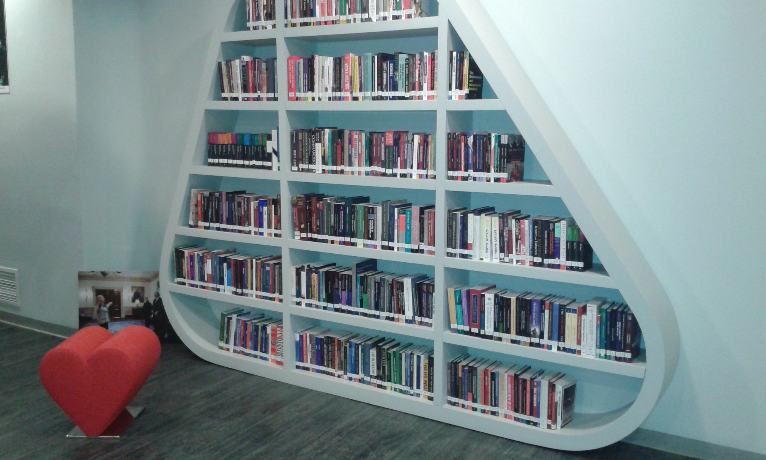 Tbilisi, Georgia — Saakashvili Presidential Library